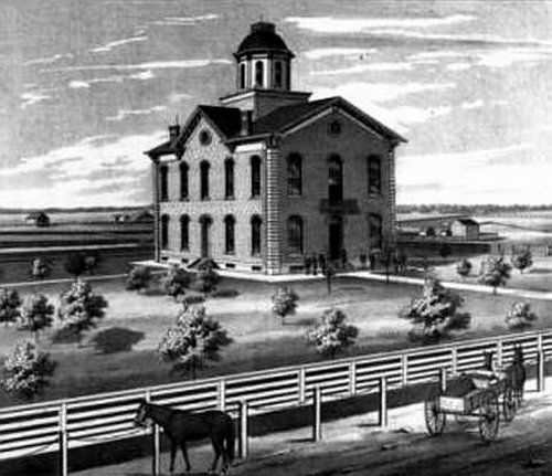 The Clark County, Missouri courthouse as it appeared circa 1878. Built in 1871, the courthouse was demolished in 2010 despite being on the National Register of Historic Places.